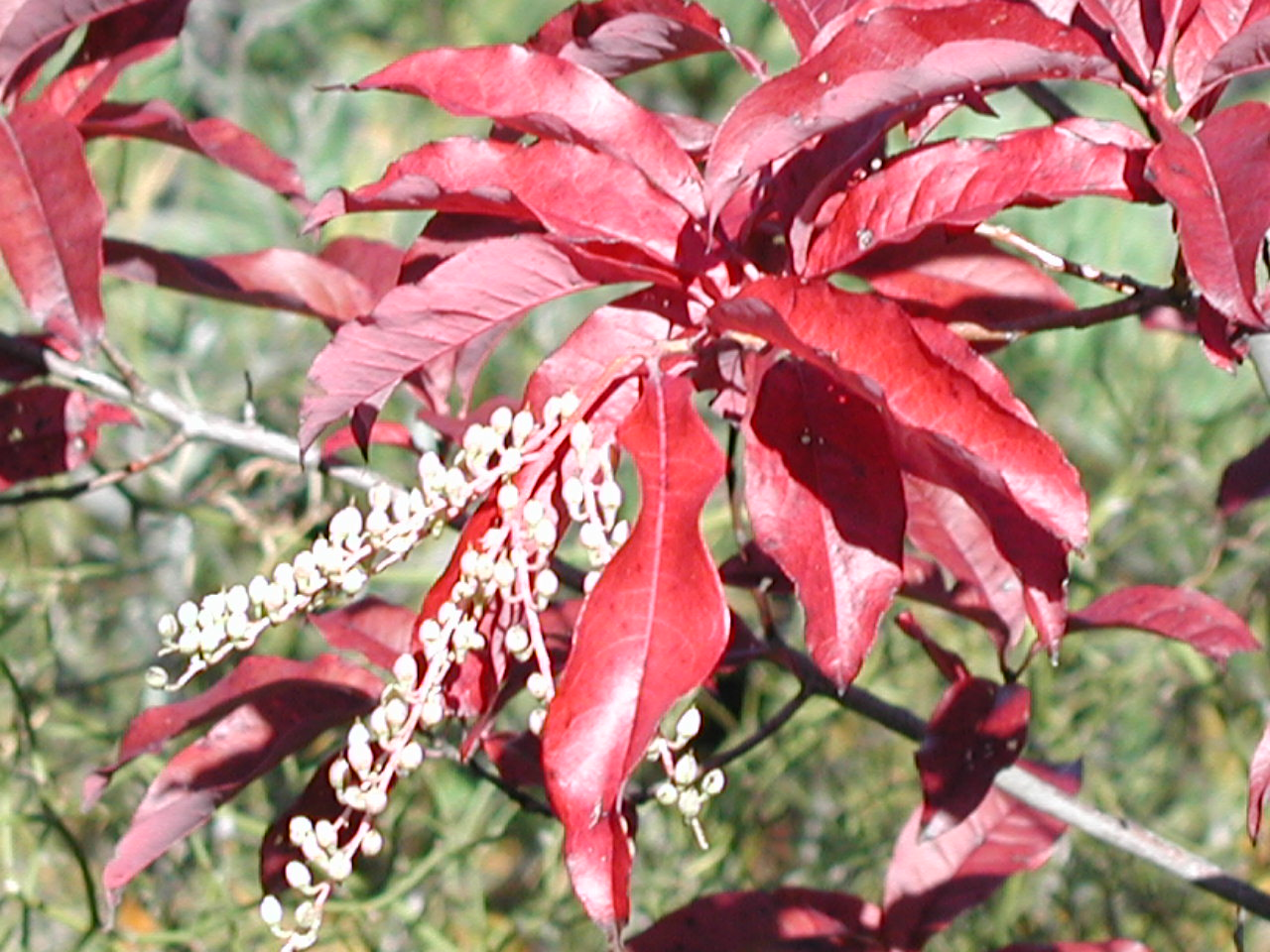 Closeup of Sourwood (Oxydendrum arboreum) taken at Little Pinnacle on top of Pilot Mtn, NC 10-30-2008.